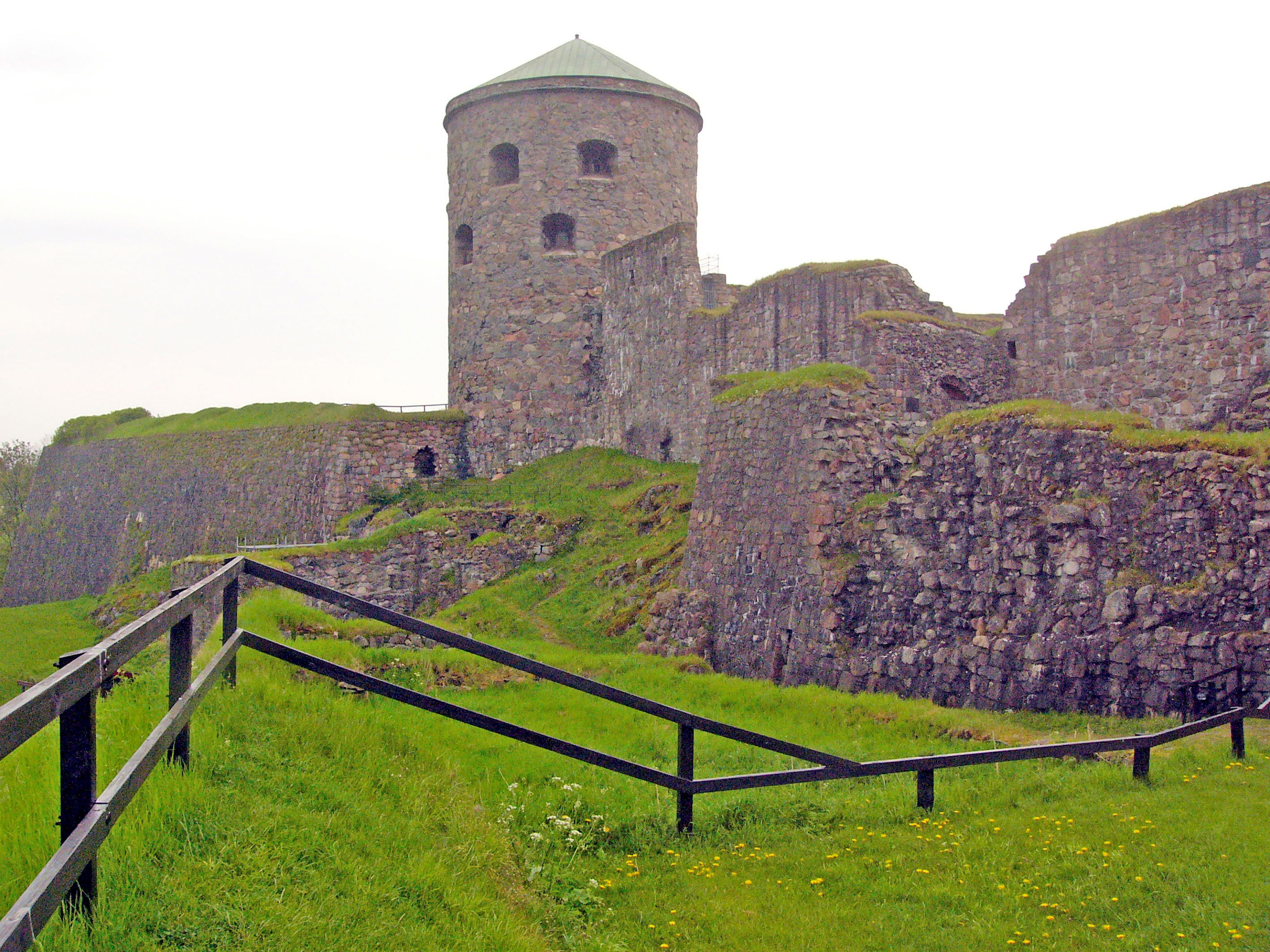 Bohus castle